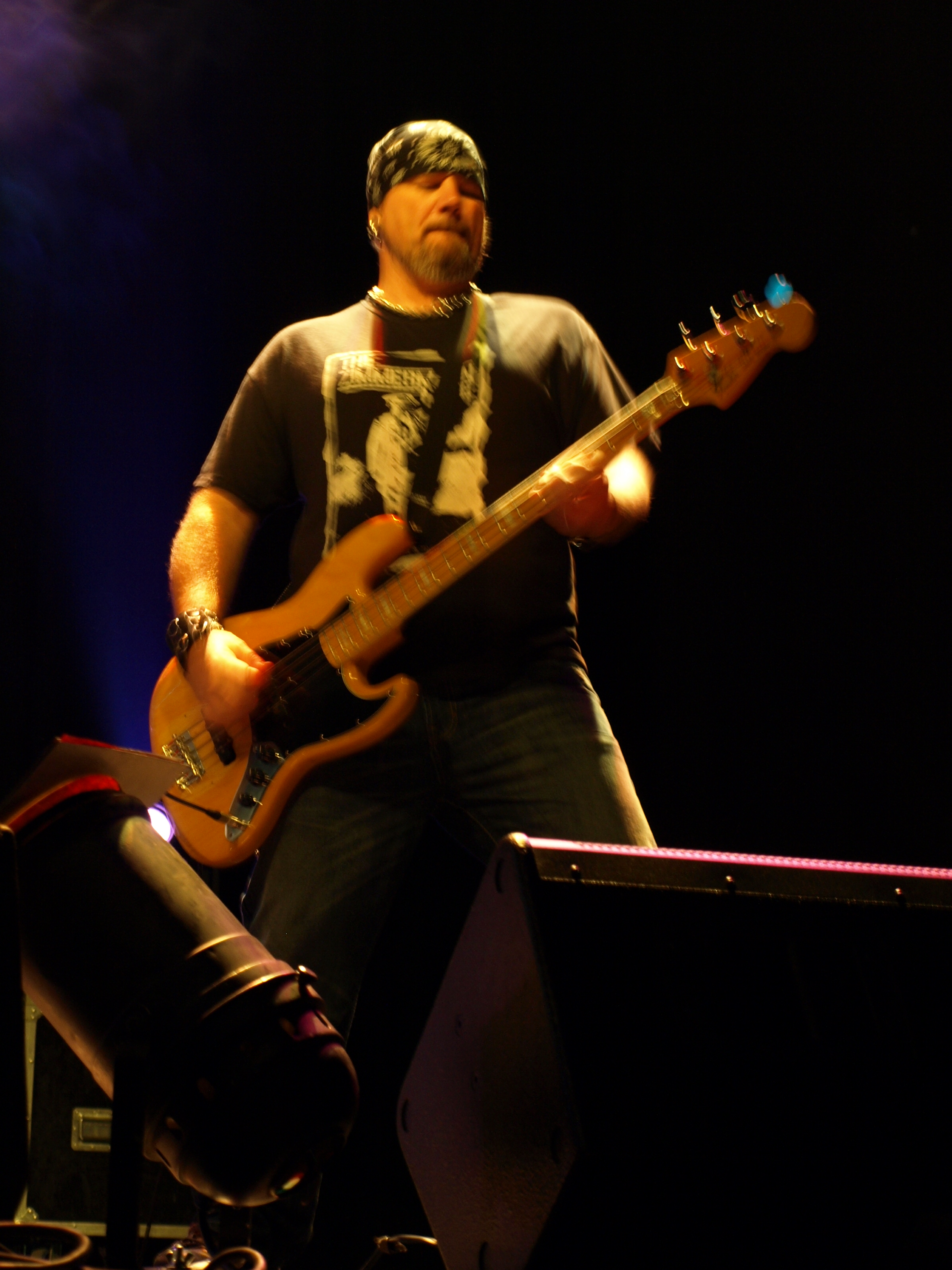 American doom metal band Trouble live at Jalometalli 2008 in Oulu.